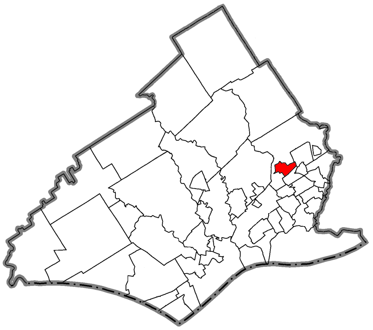 Showing the location within Delaware County, Pennsylvania.